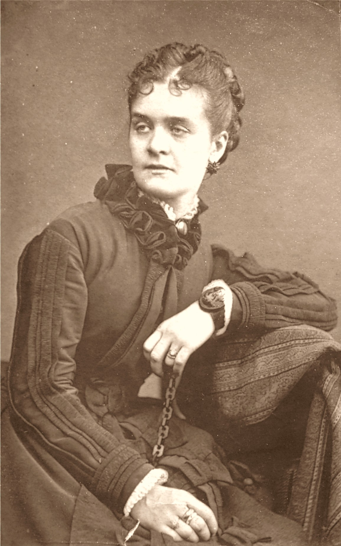 Fanny Addison 1844-1937 - Mrs.Henry Mader Pitt, English Actress.